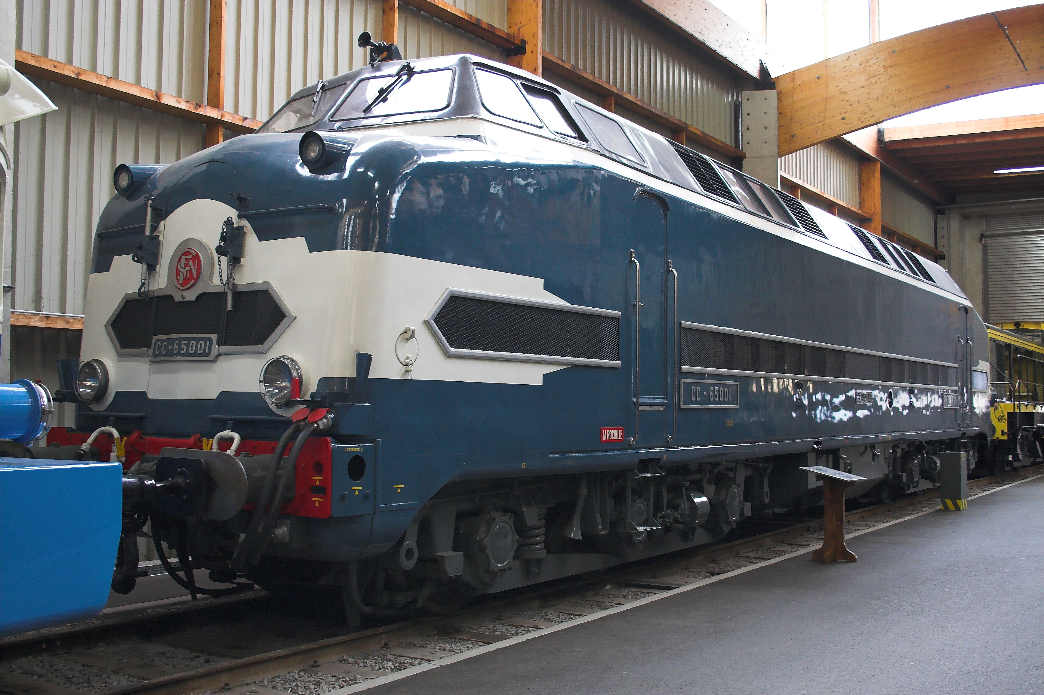 A diesel locomotive CC-65001 "Sous-marin" at Cité du Train de Mulhouse (Mulhouse, France)